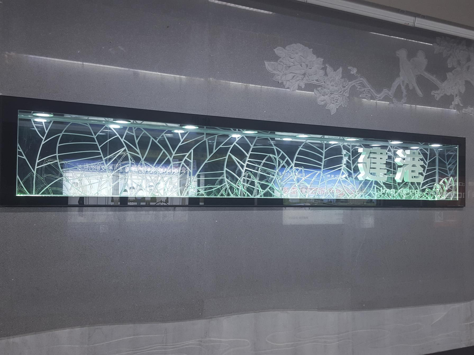 Name Box of Jian'gang Station, Wuhan Metro